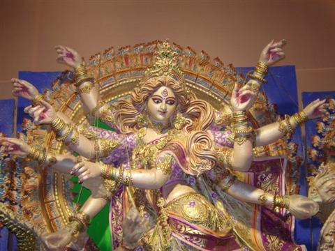 Durga